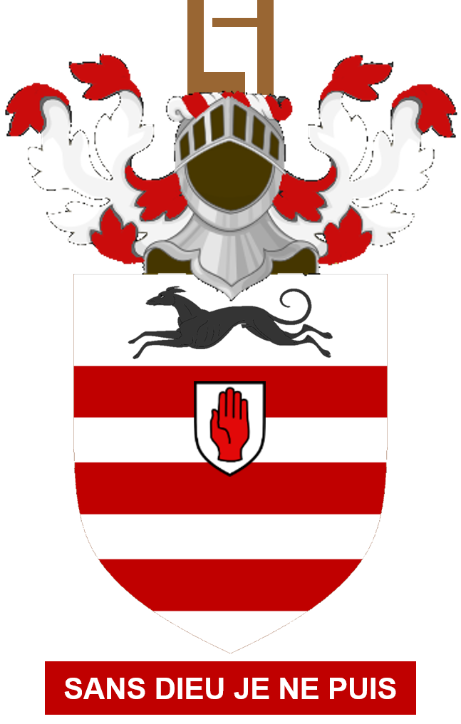 The armorial achievement of the Skipwith baronets of Prestwould